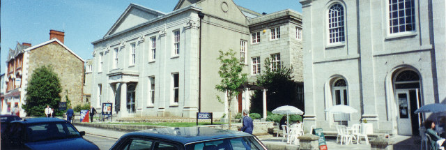 The Royal Cornwall Museum, Truro. Located in River Street, Truro, Cornwall, in a building originally constructed as a savings bank.